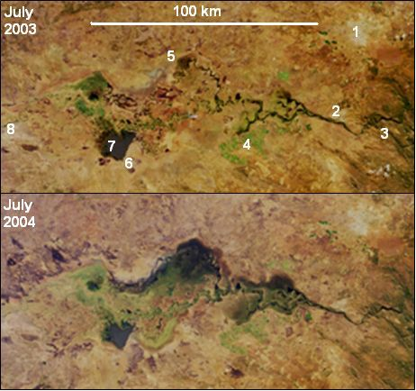 Eastern Kafue River/Kafue Flats/Kafue Wetland in the dry season, 2003 & 2004 showing beneficial effect of natural flooding when the Itezhi-Tezhi Dam floodgates are opened. “Not all floods are unwanted”.